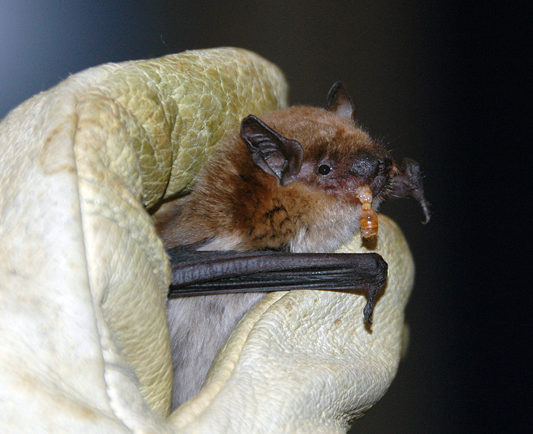 A big brown bat munches on a meal worm photo credit: USFS/Sandy Frost